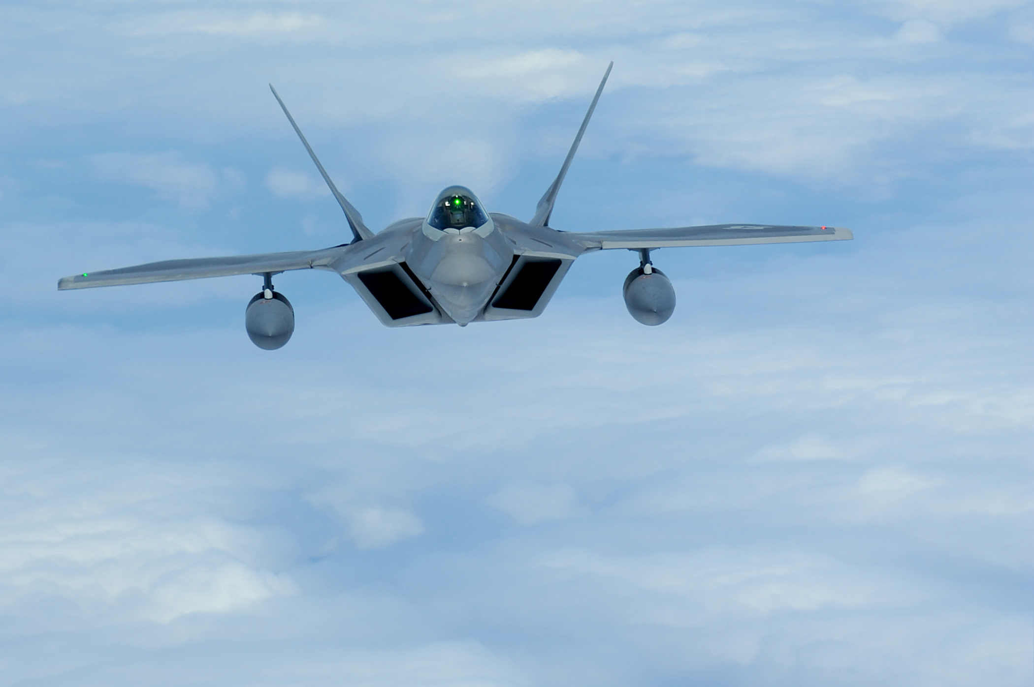 An F-22 Raptor flies over the Pacific Ocean July 2, 2010, on its way to its new home at Joint Base Pearl Harbor-Hickam, Hawaii.